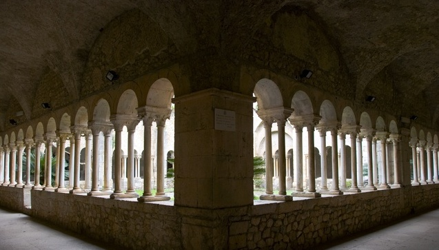 bbazia di Valvisciolo - Chiesa Santo Stefano - Cloister, Sermoneta, LAzio, Italy